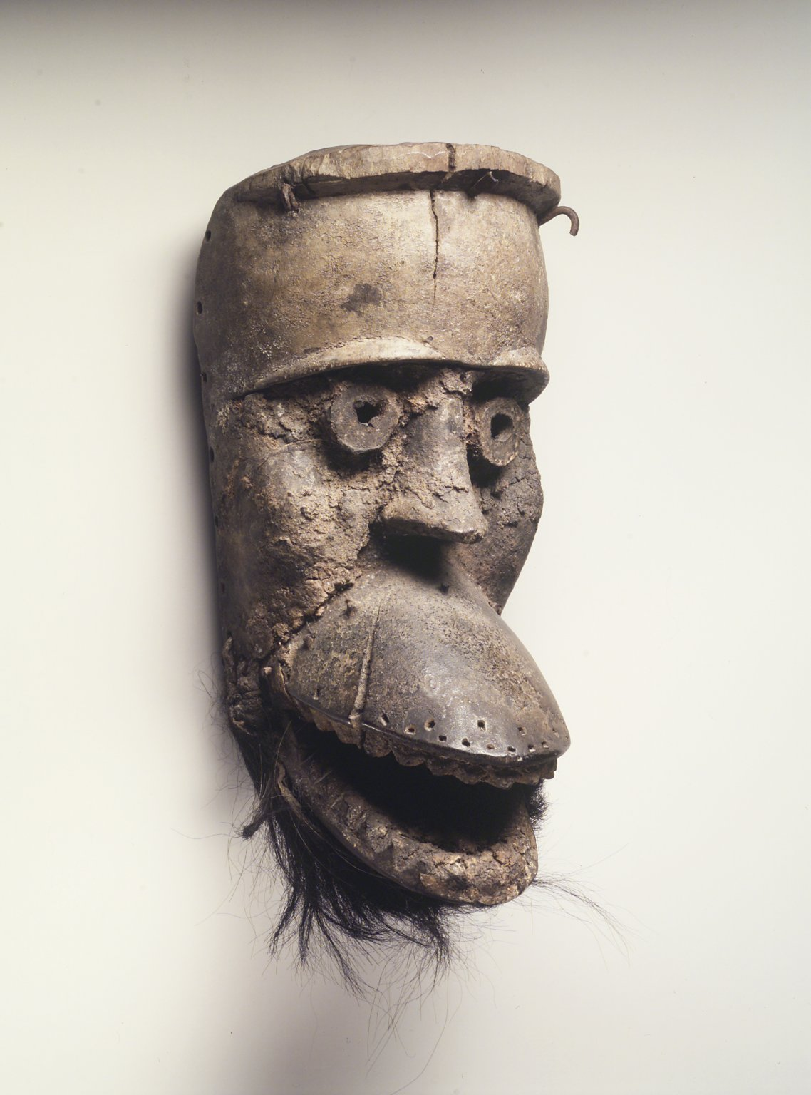 Historically, Dan society vested political leadership in a council of elders. Masks served as agents of social control, enforcing the council's rules and orders. The masked figures were believed to be incarnate spiritual beings capable of rendering unbiased judgments. The specific functions of individual masks, once removed from their village contexts, are impossible to determine. Here, the nearly closed eyes and small mouth contrast with those of other masks and probably indicate that this example served in a peacemaking function and generally created harmony in the community. On the other hand, the form of the bu gle mask (no. 2) with projecting eyes and mouth was designed to be deliberately frightening.